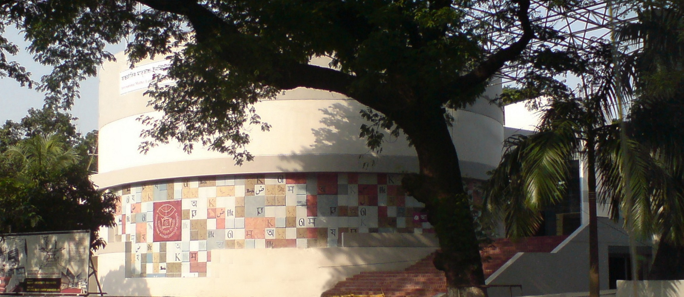 International Mother Language Institute, Dhaka, Bangladesh